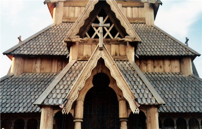 A close view of the "stave" church in the Scandinavian Heritage Park in Minot, North Dakota